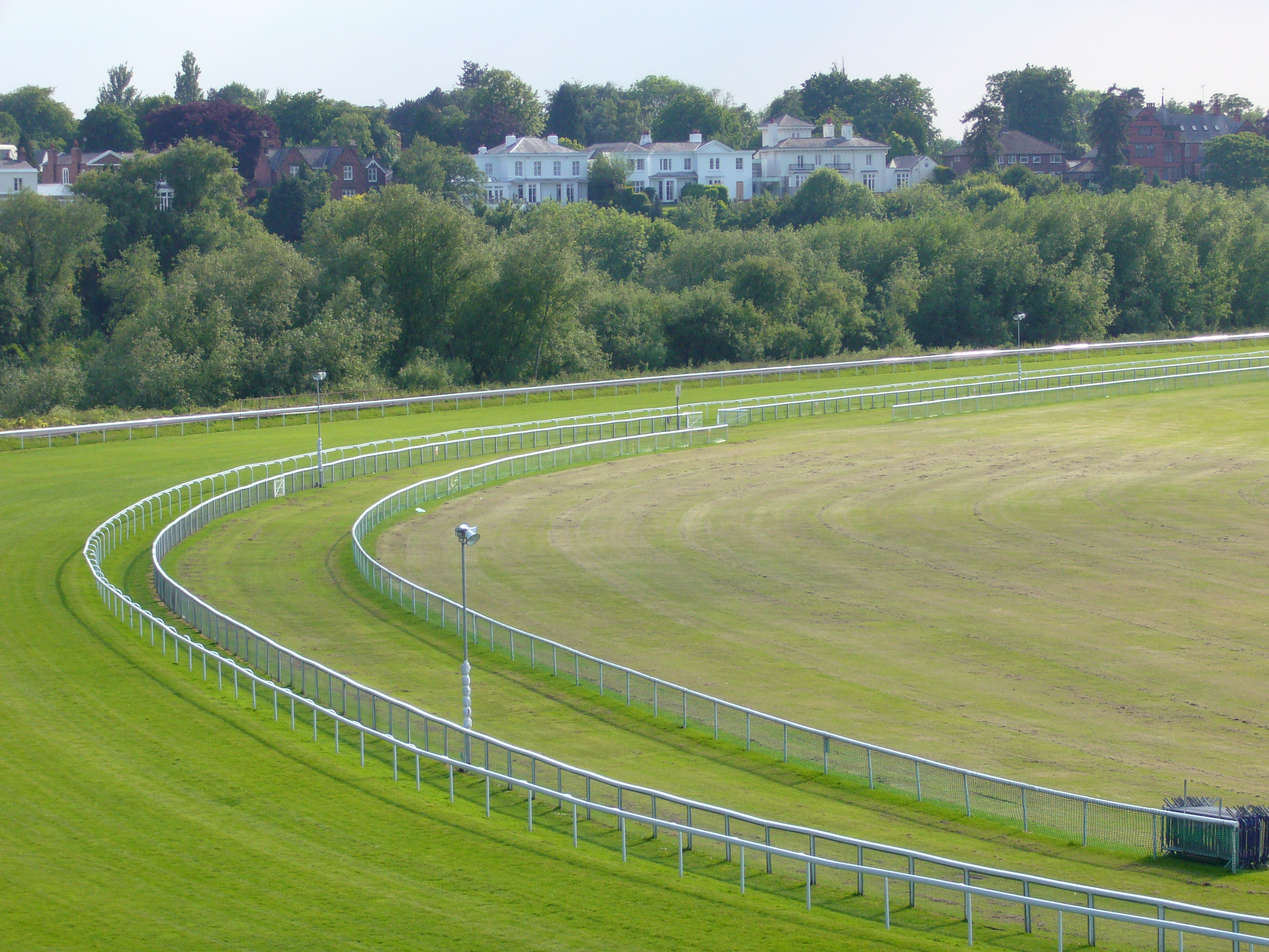 View of Curzon Park in Chester on the South bank of the River Dee. The Roodee is in the foreground.